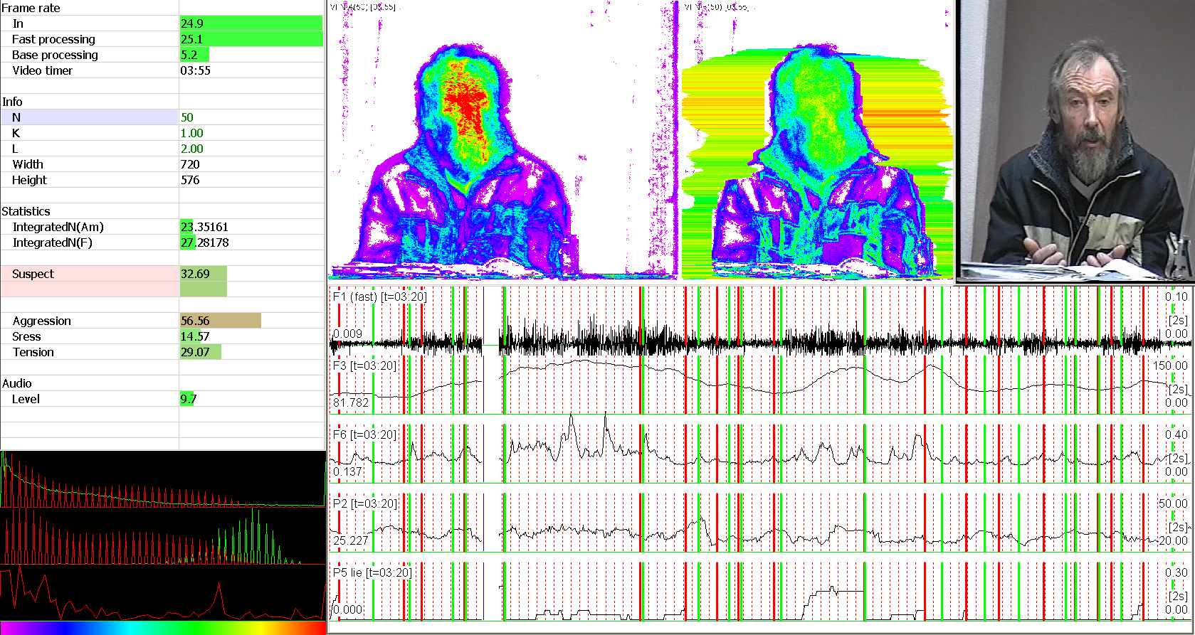 Amplitude vibraimage, external vibraimage, real video image and time dependence of vibraimage parameters, lie detection, emotions calculation, etc during investigation.